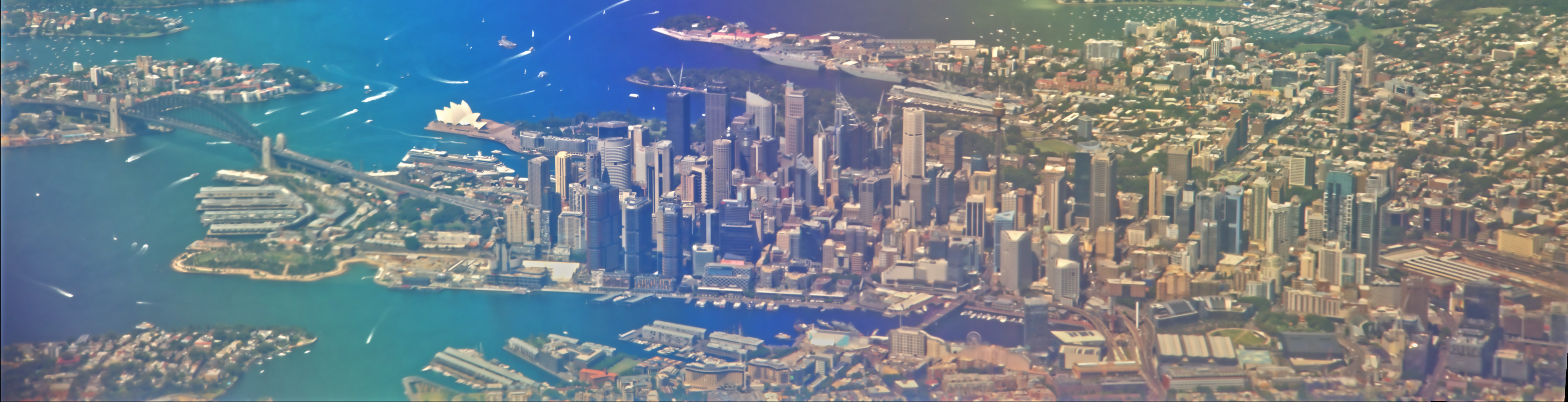 A aerial panorama of Sydney Harbour and Darling Harbour with Sydney CBD on Jan 04, 2019